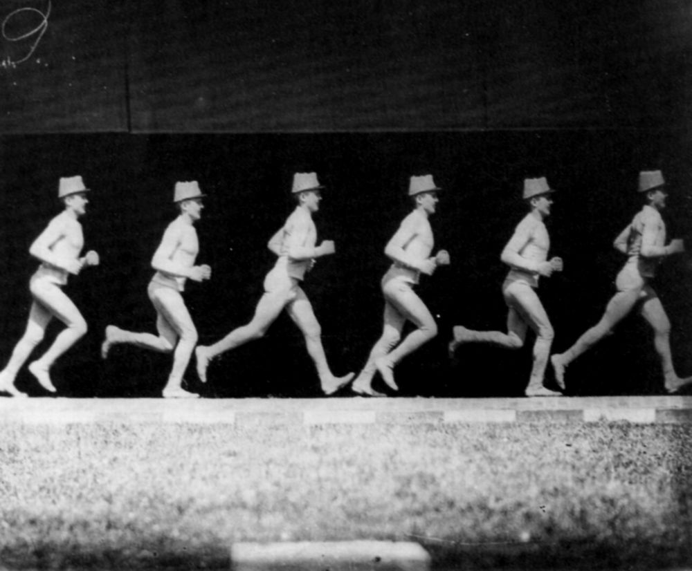 Running (2)